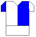 English football uniform